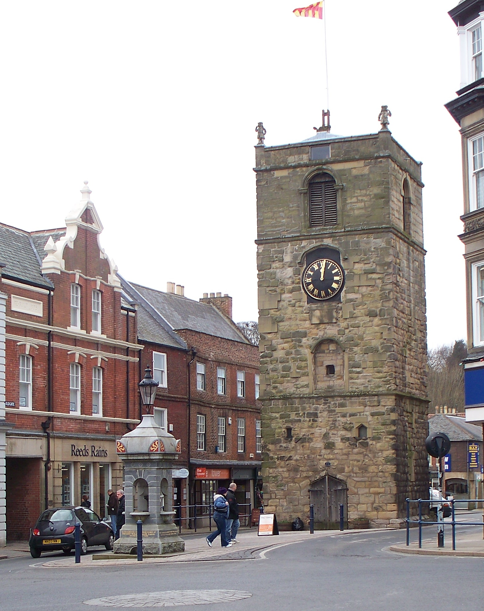 Midday in Morpeth According to the clock with only 48 minutes. Count them if you don't believe me.